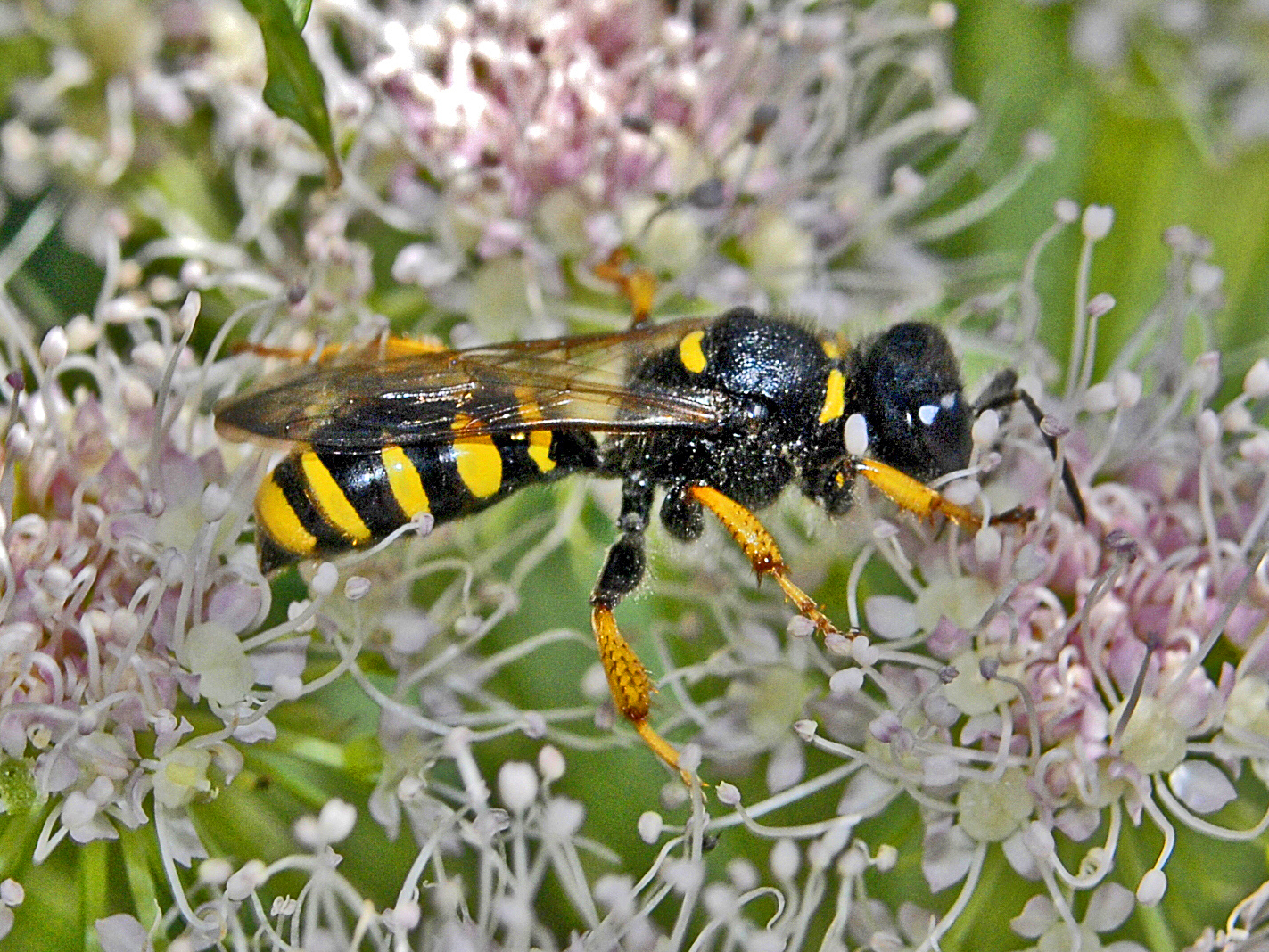 Female of Crabro cribrarius. La Thuile, Aosta, Italy